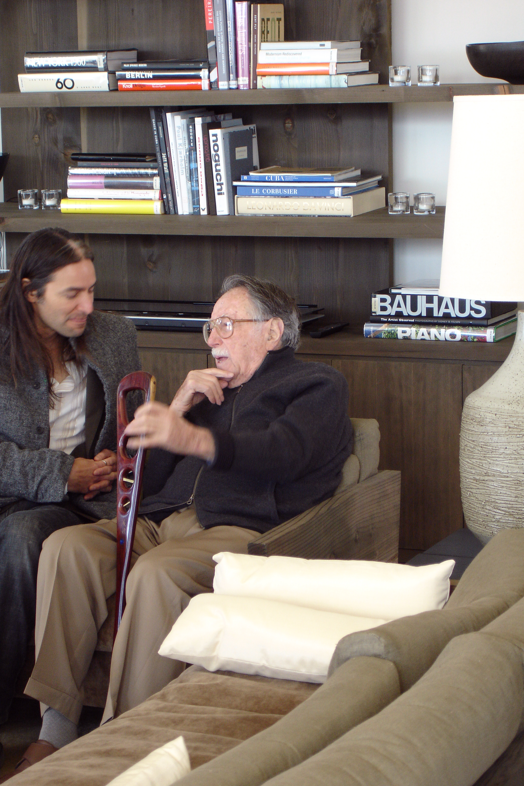 Julius Shulman with Ron Radziner at Marmol Radziner's modernist Pre-Fabricated Desert House. Desert Hot Springs, California